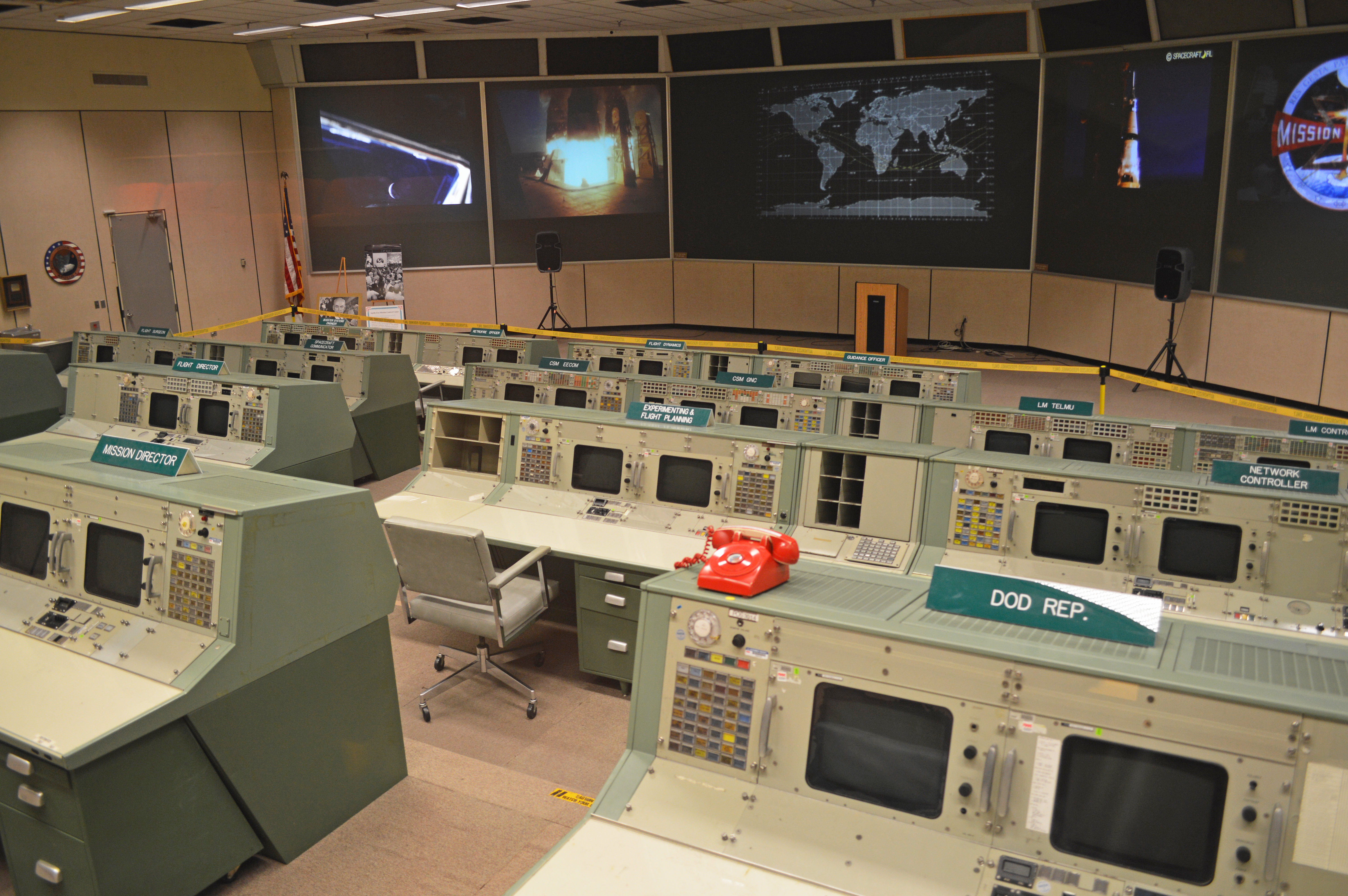 First operational in June 1965, MOCR-2 is most famous for its use during both the Apollo 11 moon landing and Apollo 13 crisis (as in “Houston – We have a problem”). It actually served as Flight Operations / Mission Control for a total of nine Gemini missions and eleven Apollo missions. Renamed as Flight Control Room 2 (FCR-2) it went on to support twenty two Space Shuttle missions between 1982 and 1992. It was then decommissioned. It has now been classed as a National Historic Landmark and has been restored to the exact condition it was in during the July 1969 Apollo 11 moon landing. The original equipment had long been replaced, but the originals were all found in a nearby storeroom and were returned to their original locations in the room. Building 30, Lyndon B Johnson Space Center, Houston, Texas, United States. 20th March 2017